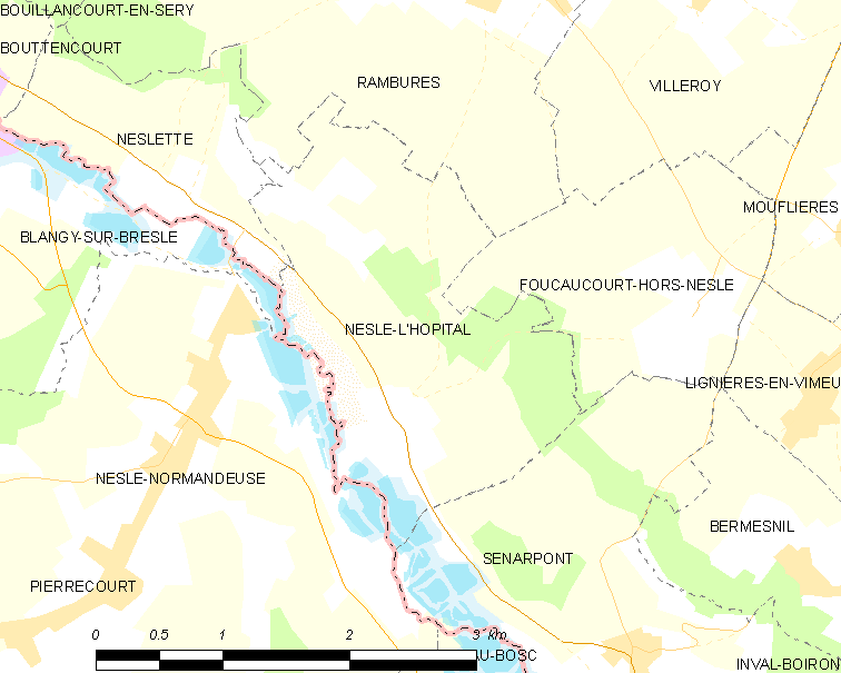 Map of French municipality Nesle-l'Hôpital